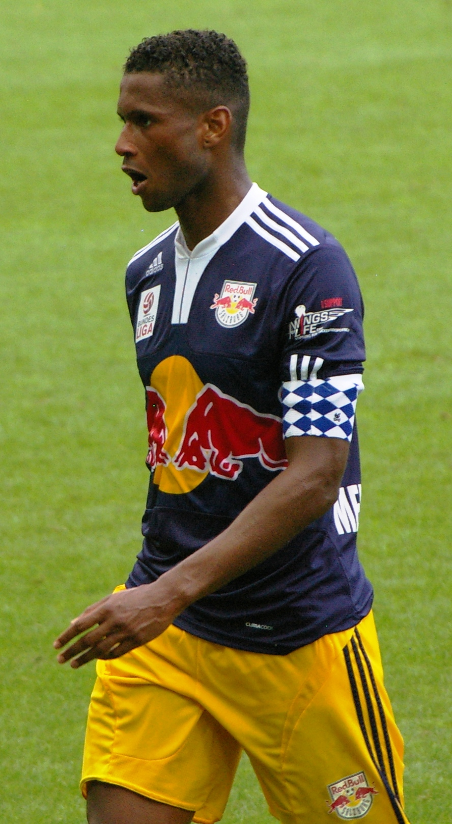 midfielder RB Salzburg